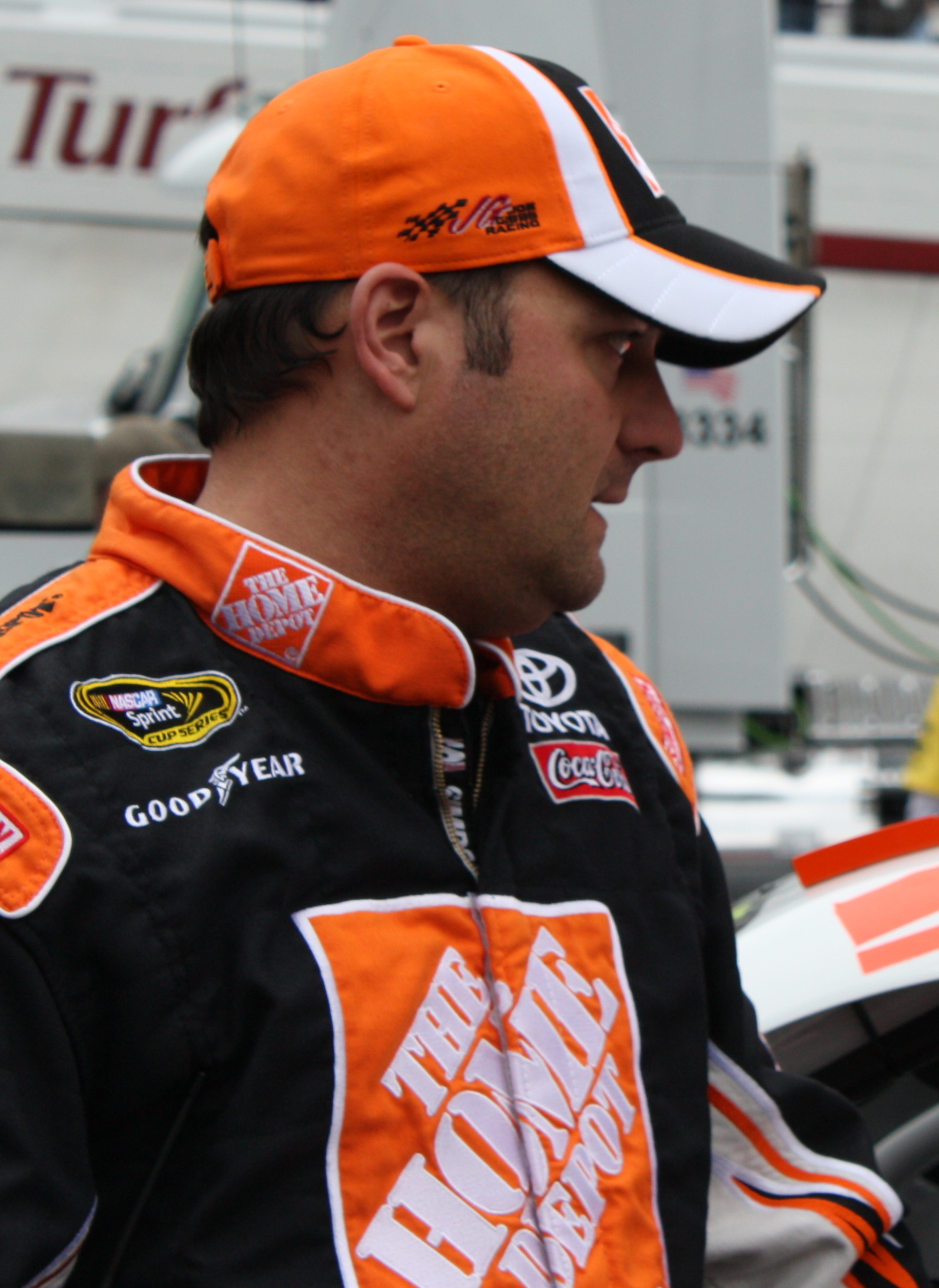 Greg Zipadelli at Bristol Motor Speedway in 2010